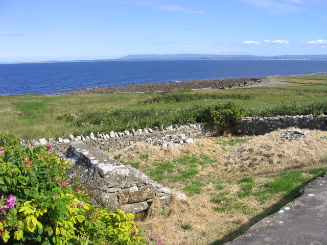 St Cumins well and Killala bay